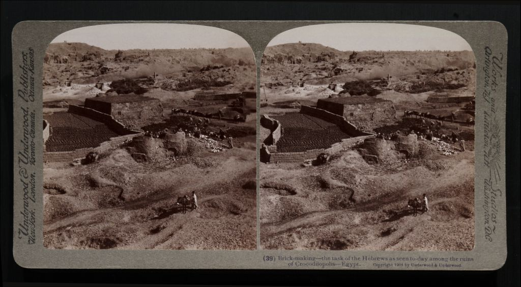 Aerial view of brick ruins